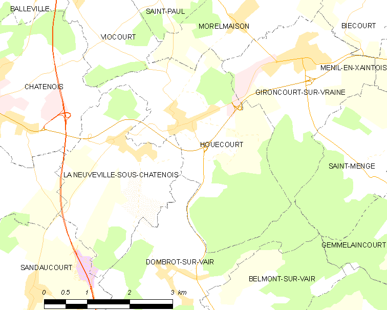 Map of French municipality Houécourt